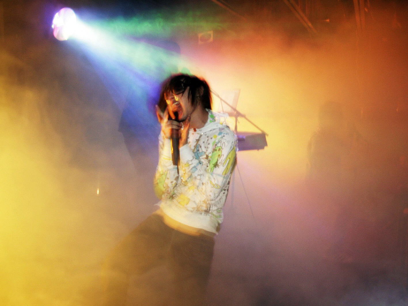 BrokeNCYDE in concert.